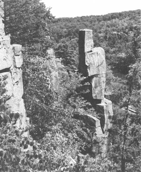 Devils Chair, a now-collapsed formation in Interstate Park, Taylors Falls, Minnesota